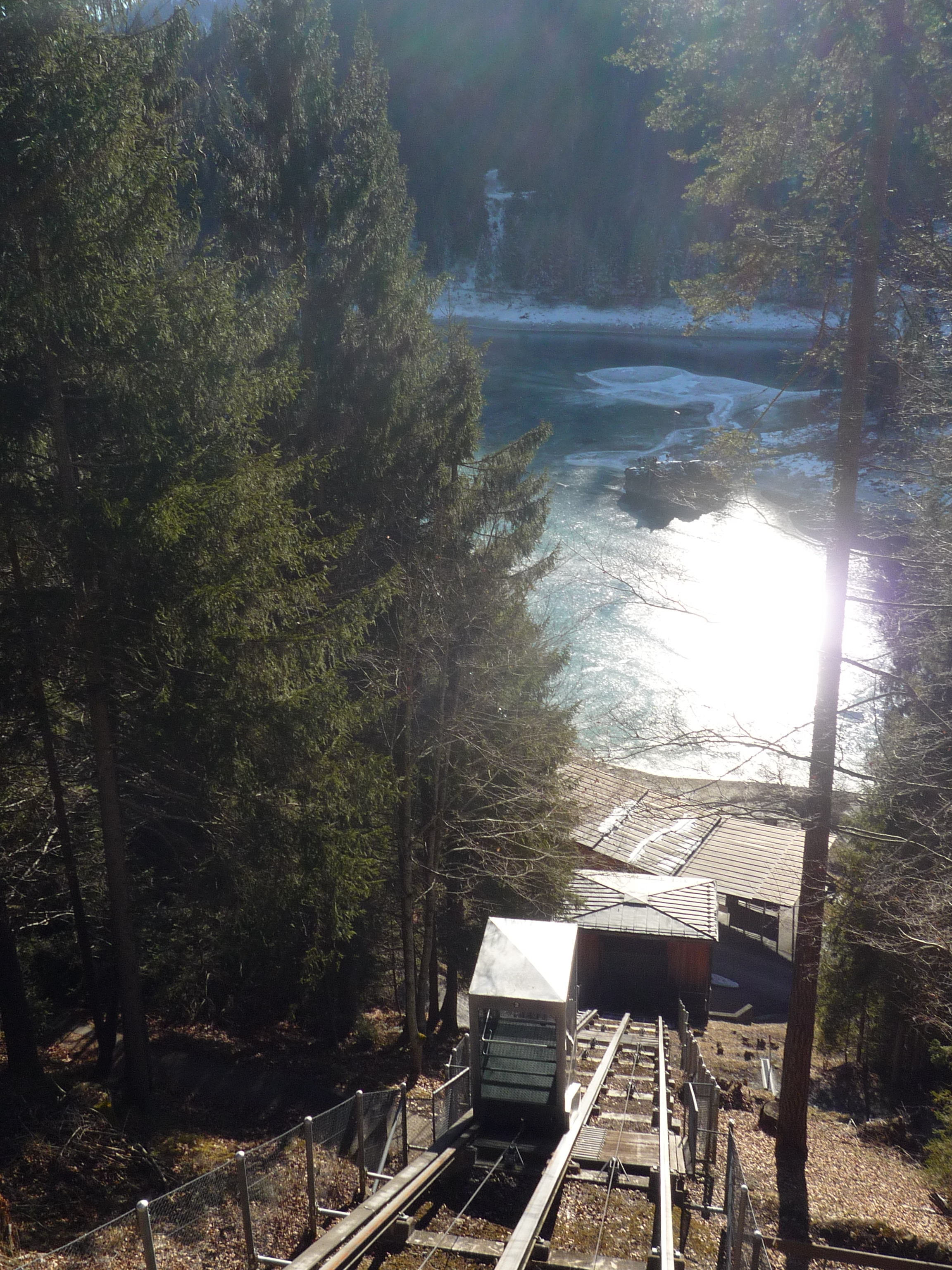 As an exception the Caumasee Elevator was operating in winter during the Christmas Holiday of 2015. A rare view to see it with a frozen lake.